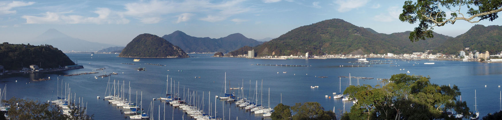 Viewed from the ruins of Ngahama castle, located in Numazu city, Shizuoka prefecture, Japan.